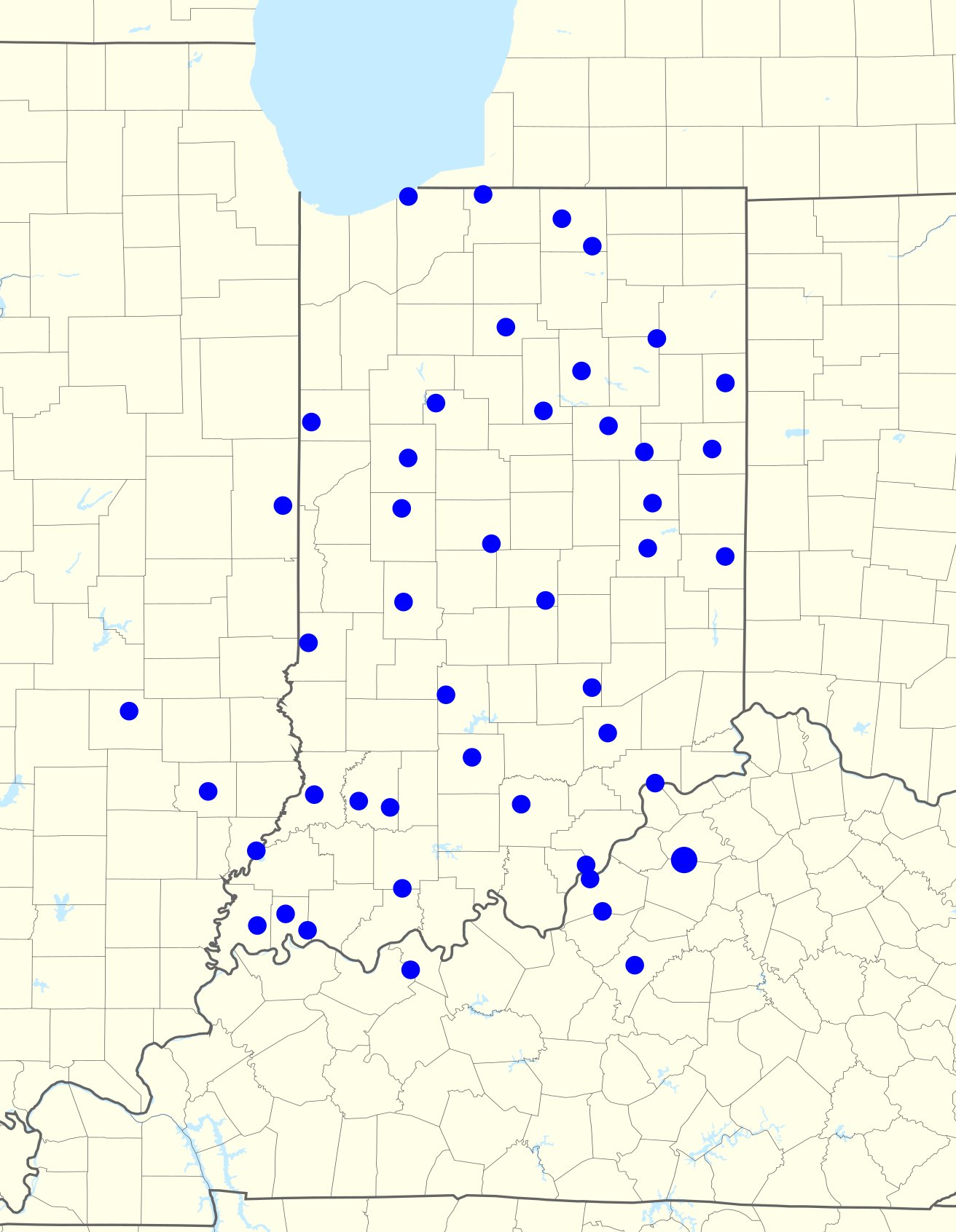 Indianapolis Colts Radio Network: map of radio affiliates.